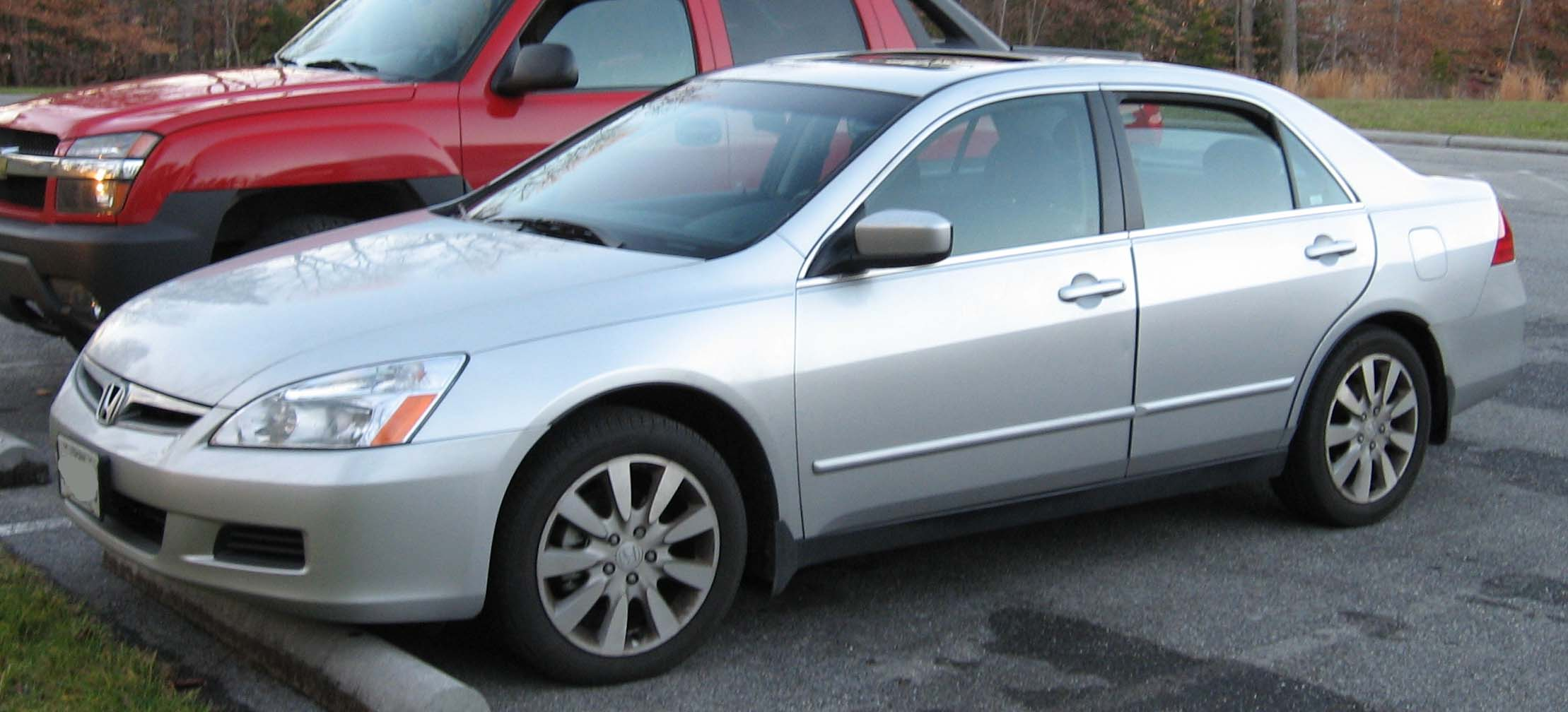 2006-2007 Honda Accord photographed in USA.